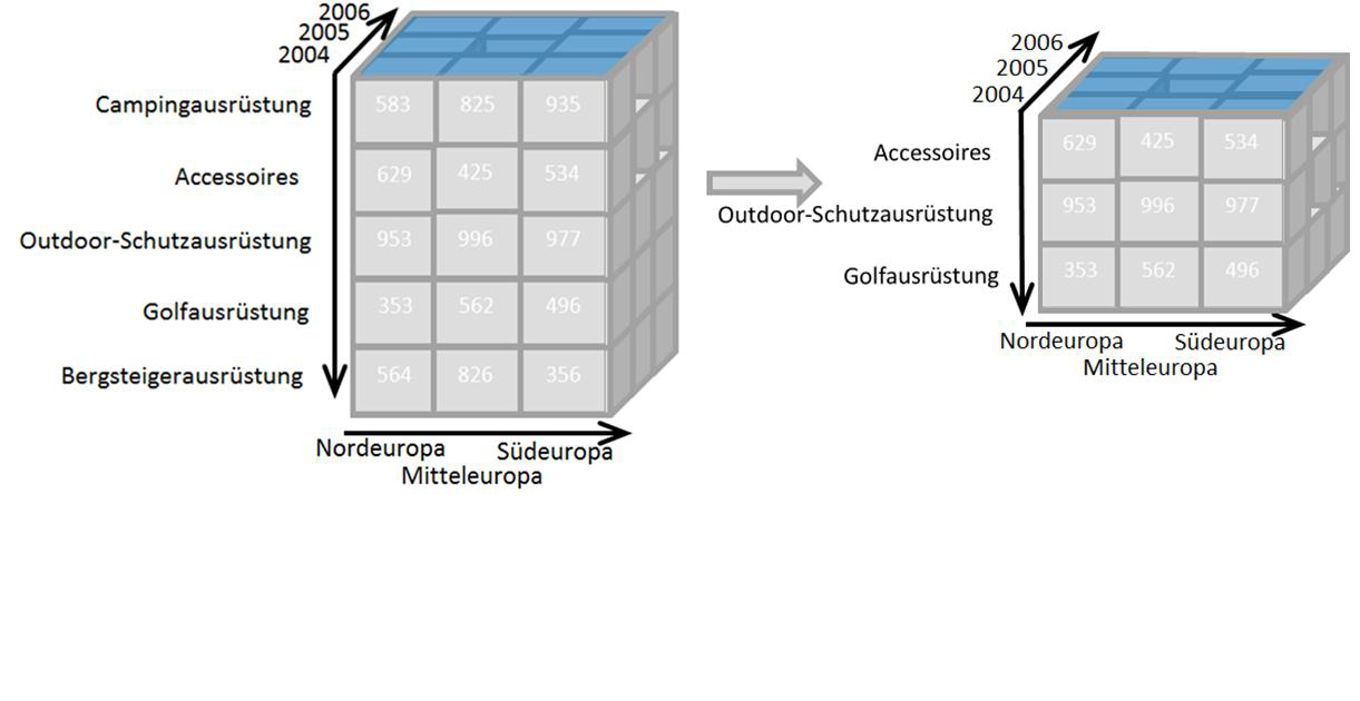 Online Analytical Processing (OLAP) Operation called "dicing"